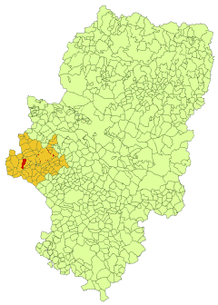 Map of Calatayud. Created based on Image:Aragon municipalities.png created by